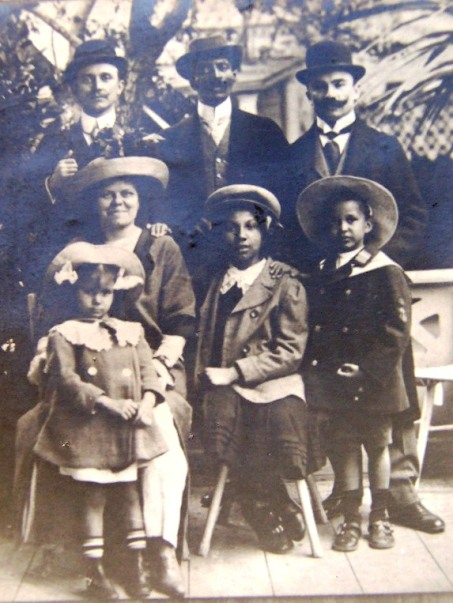 Frederick Thomas and Family Frederick Thomas shortly after his marriage on January 5, 1913, to his second wife “Valli,” together with his children by his first wife—Irma, 4 years old, Olga, 11, and Mikhail, 6 ½. The men with Frederick are unidentified; on the left may be a relative of Valli’s; on the right, Frederick’s business partner, M. P. Tsarev.